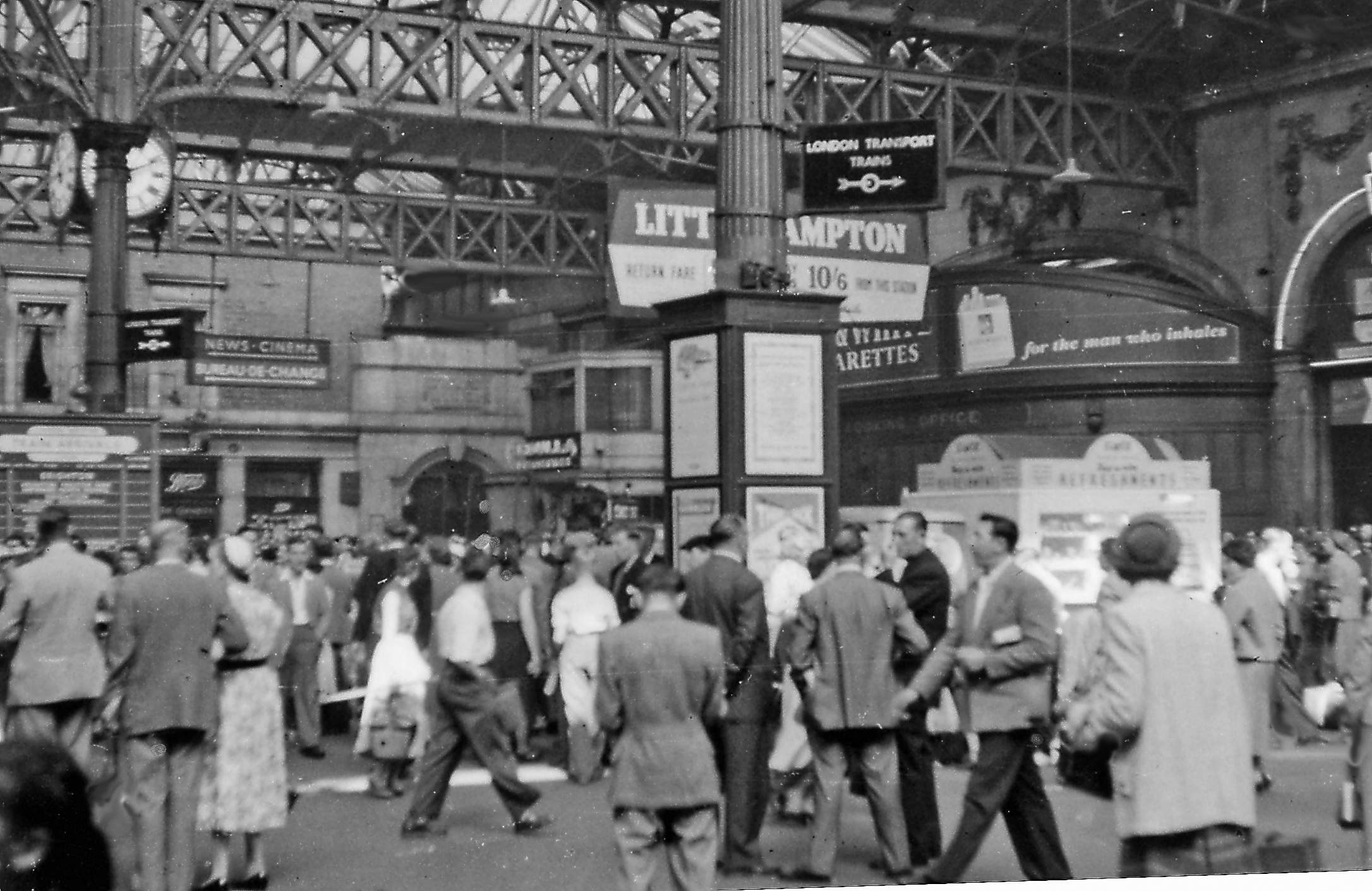 Concourse at Victoria (Central) on a Summer Saturday in 1955. 'Period' scene, 57 years ago - you could tell the difference between men and women in those days.